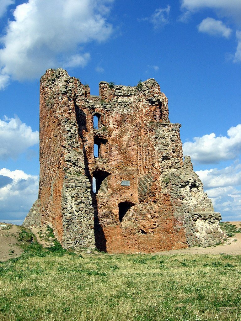 The ruins of Ščytoŭka Turrent. Navahradak Castle. Navahradak, Belarus